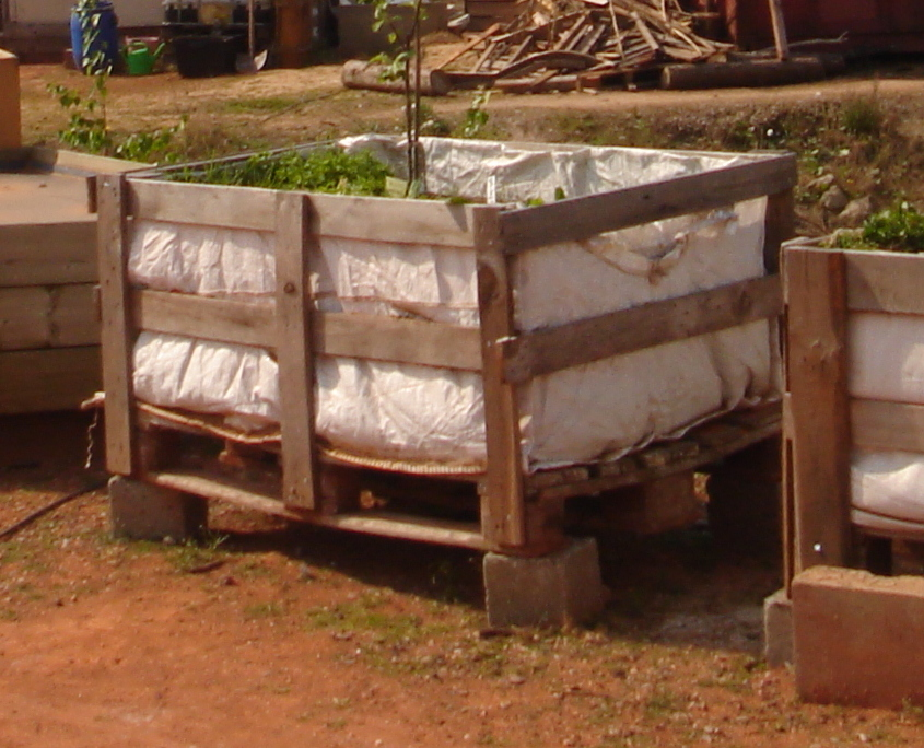 Mobility Community gardening Example with stone